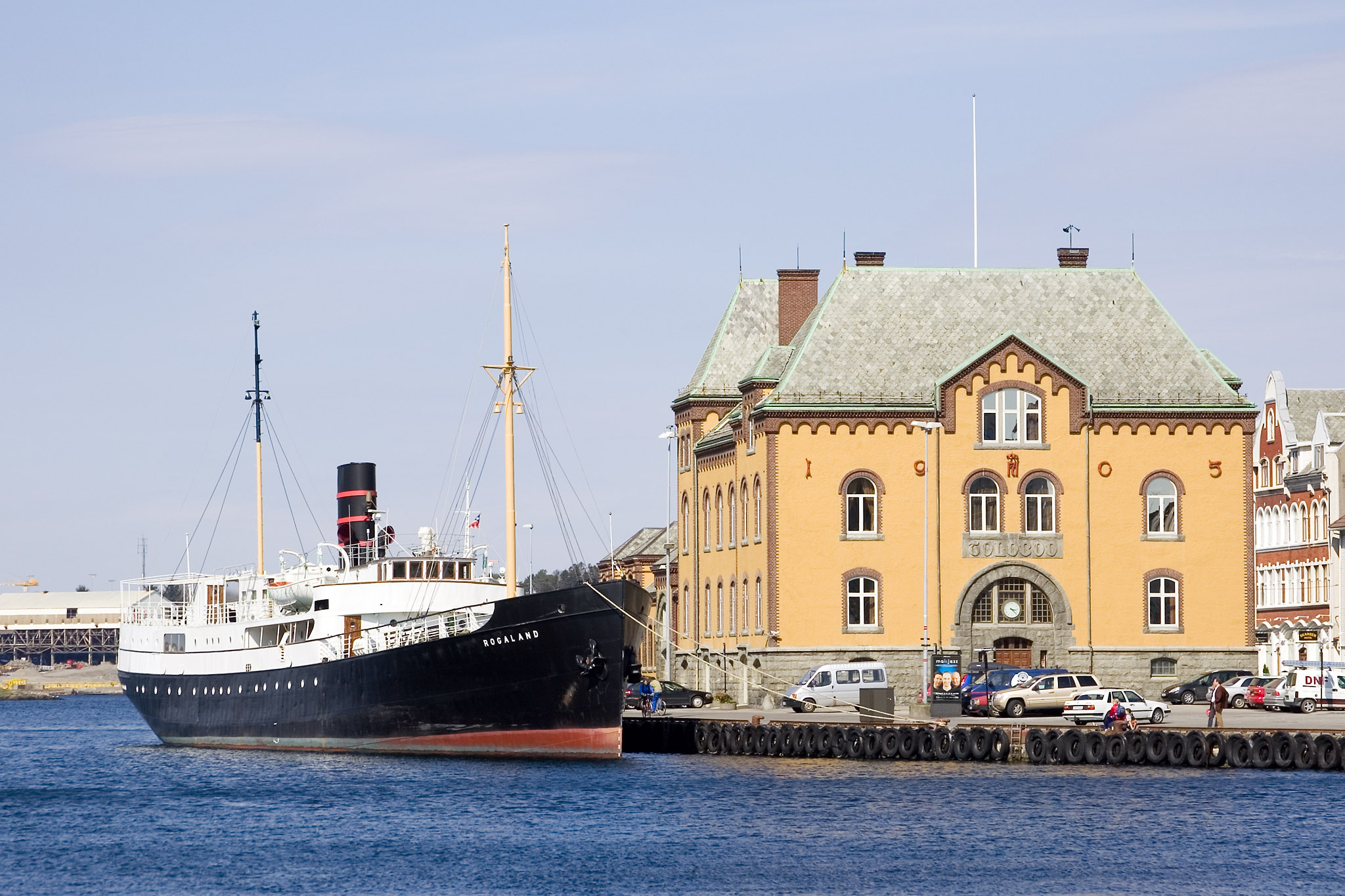 Rogaland Retro Ship / Stavanger, Norway